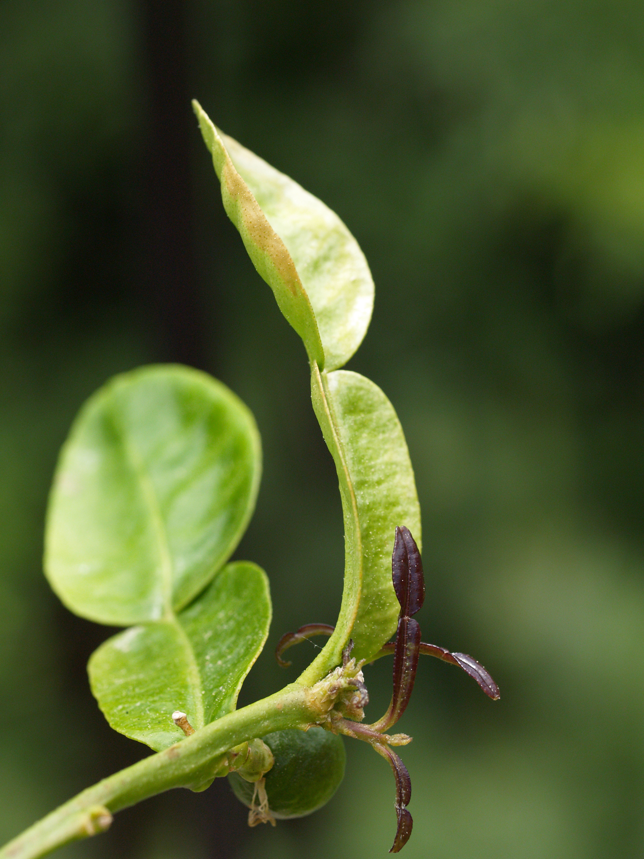 Citrus hystrix leaf